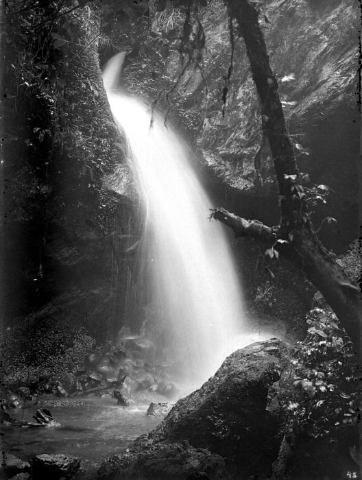 Waterfall, Cisanggiri